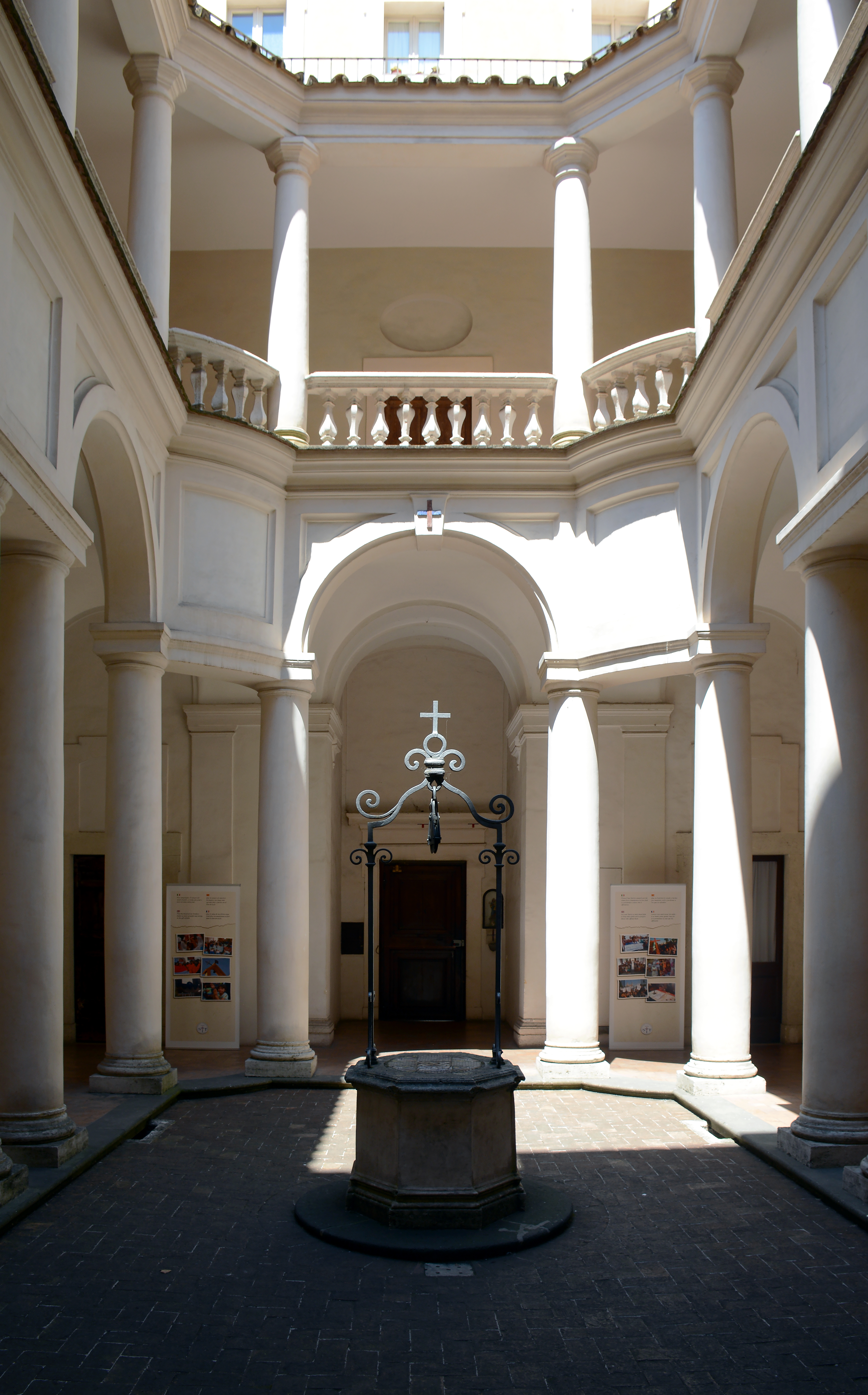 San Carlo alle Quattro Fontane (Rome) - cloister